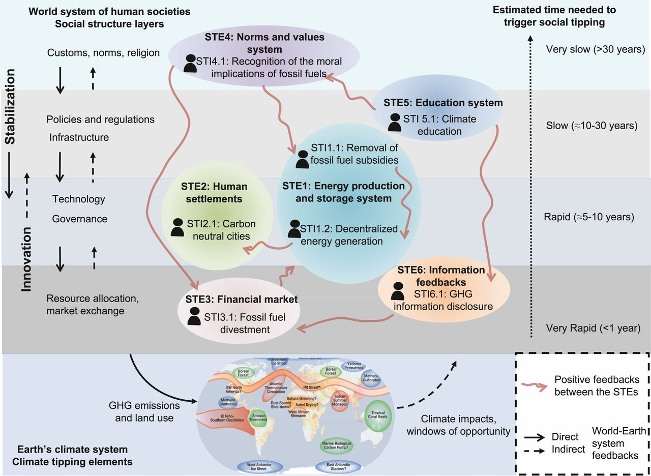 Social tipping elements (STEs) and associated social tipping interventions (STIs) with the potential to drive rapid decarbonization in the World–Earth system. The processes they represent unfold across levels of social structure on widely different timescales, ranging from the fast dynamics of market exchanges and resource allocation on subannual timescales to the slow decadal- to centennial-scale changes on the level of customs, values, and social norms (51).